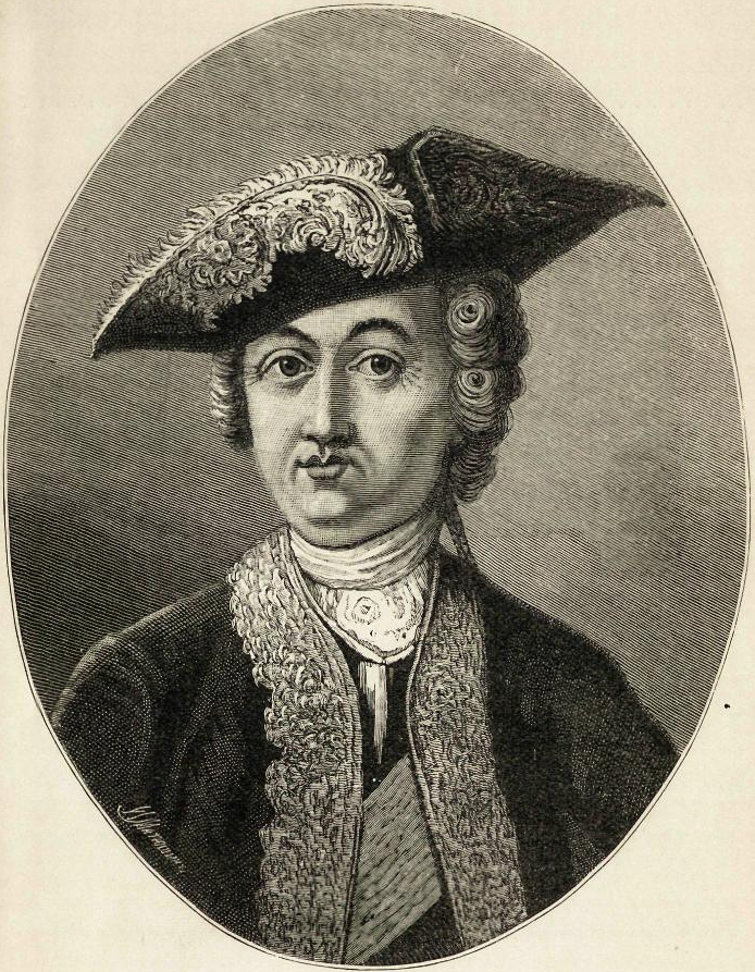 Gottlieb Heinrich Totleben